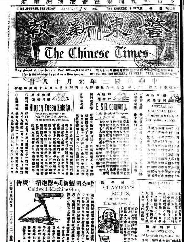 The front page of The Chinese Times, 18 January 1913, depicting a masthead in English and Chinese, news articles in Chinese, and advertisements in English and Chinese.